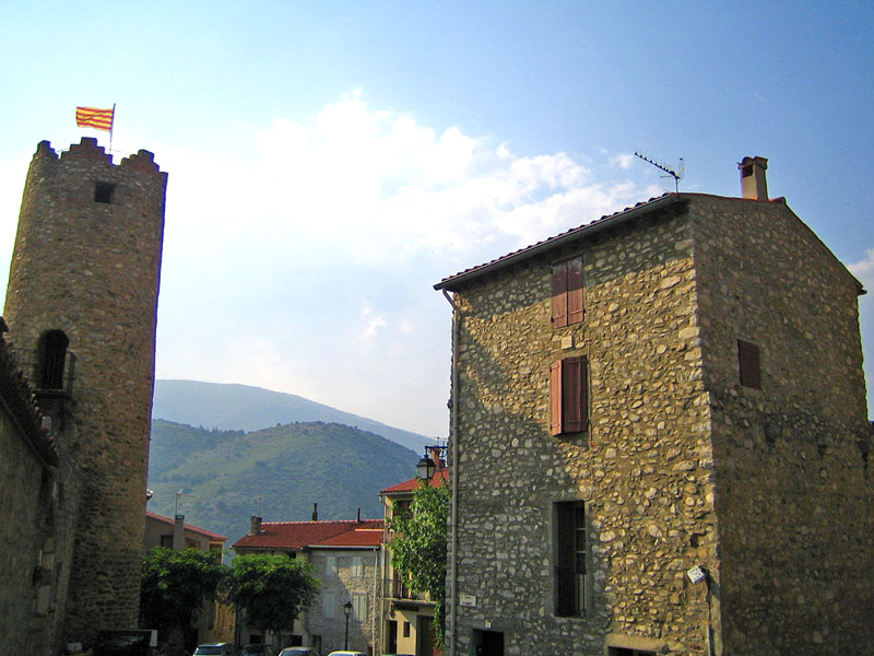 Cornellà de Conflent, French Catalonia.